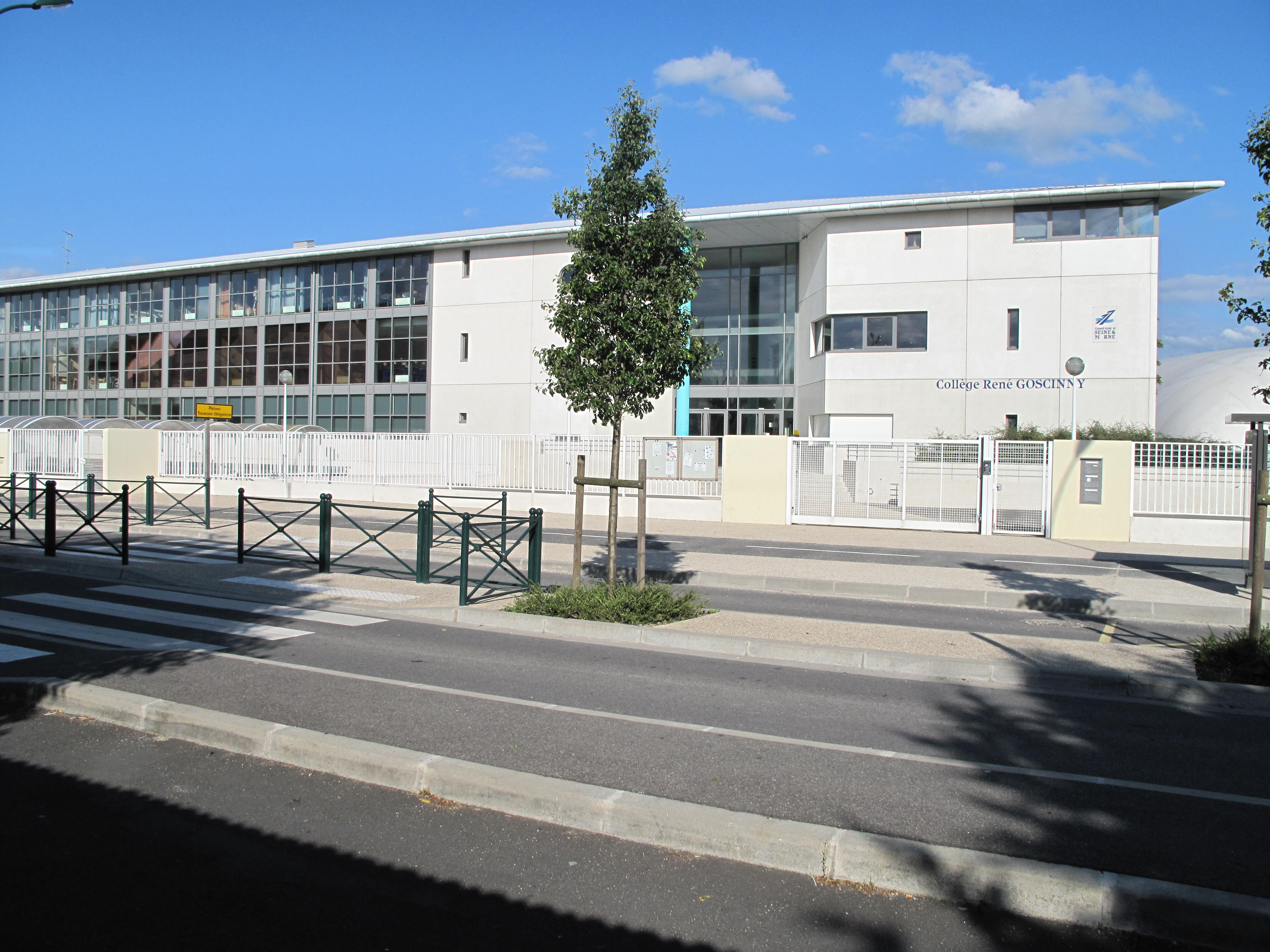 René Goscinny college in Vaires-sur-Marne, Seine-et-Marne, France